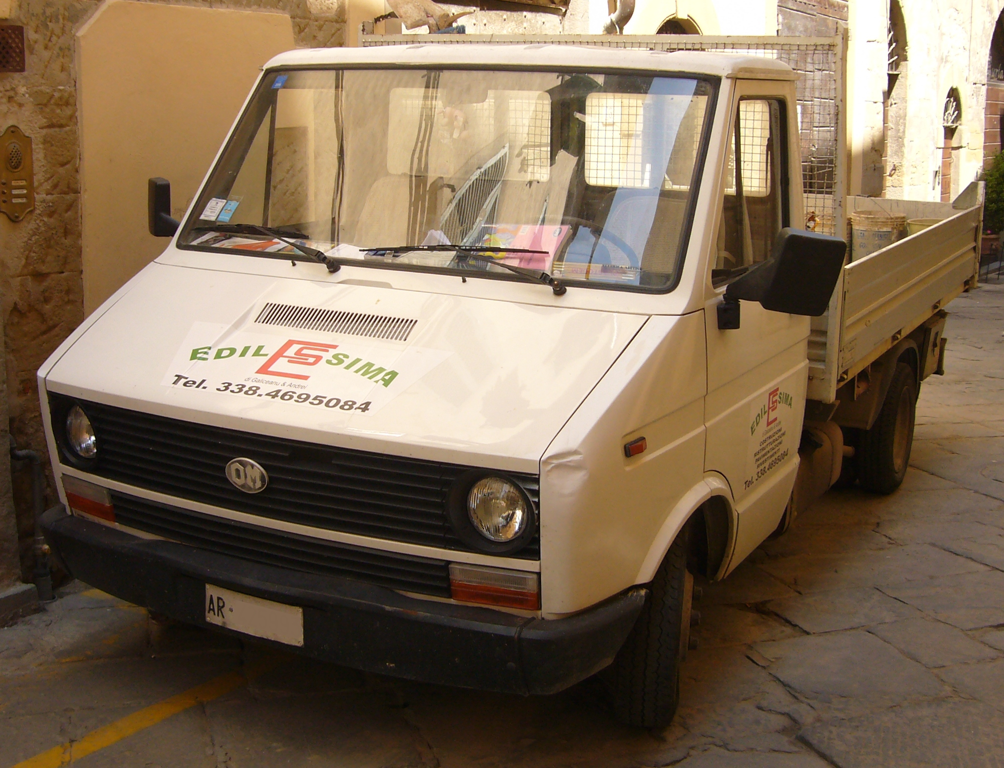 OM Grinta in Arezzo, Tuscany, Italy